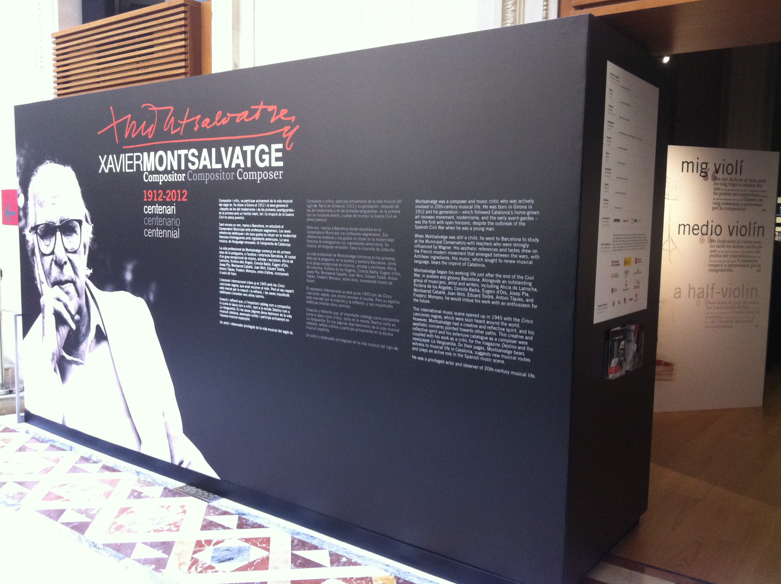 Xavier Montsalvatge i Bassols exhibit at Palau Robert in Barcelona. 2012